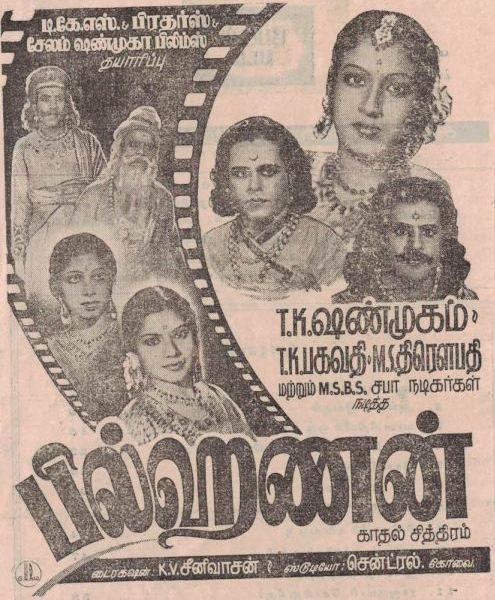 Poster for the 1948 South Indian Tamil film Bilhanan